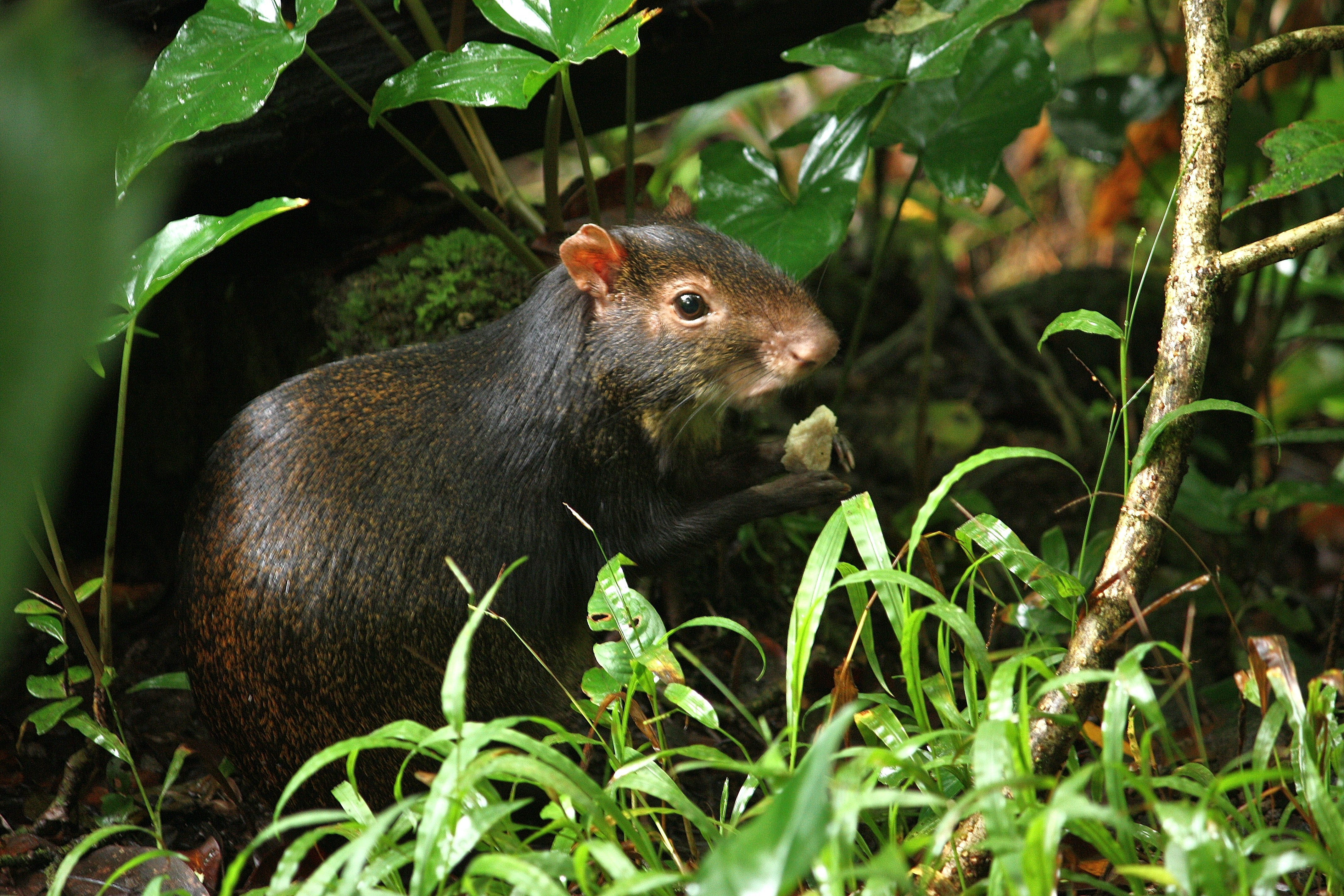 Brazilian Agouti (Dasyprocta leporina) feeding; on border of Mornes Trois Pitons National Park, Dominica.